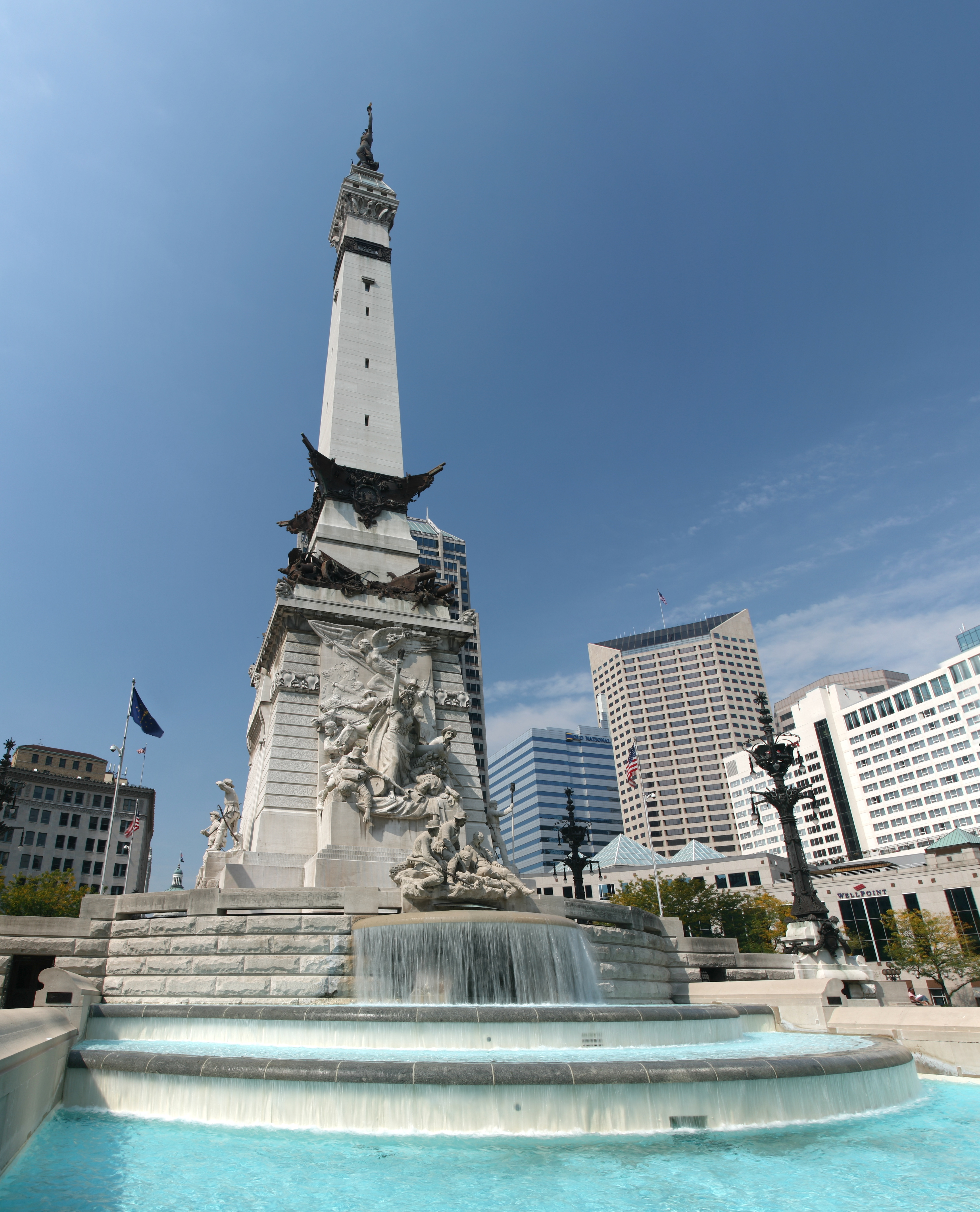 Soldiers and Sailors Monument in Indianapolis, USA This image was created with Hugin.